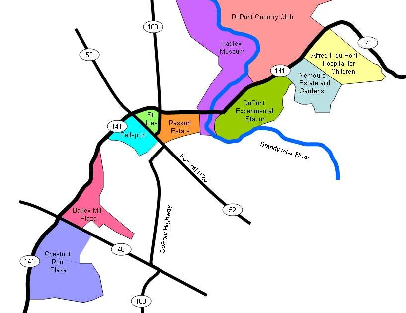 Map of historic institutions and residences related to the DuPont company and family and located along Delaware Route 141.